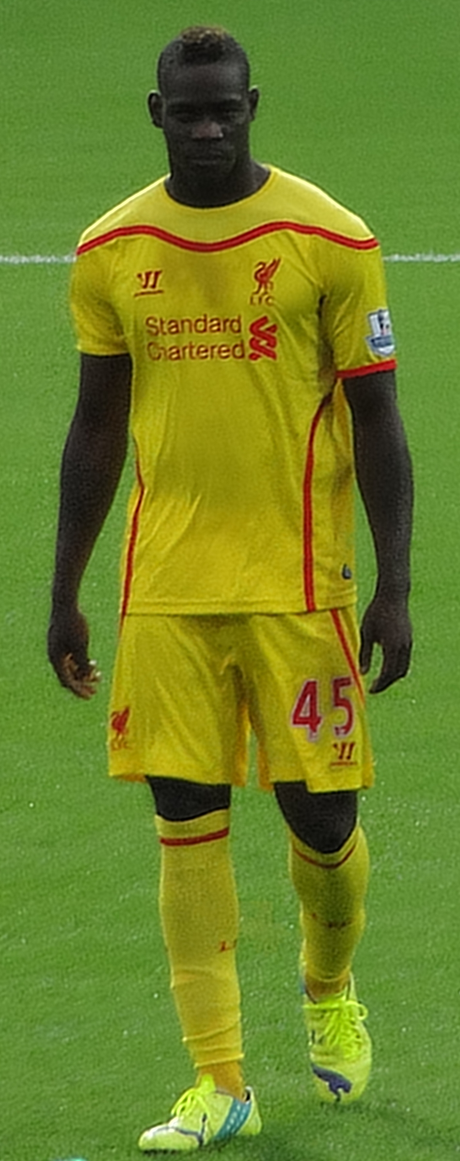 Liverpool player Mario Balotelli during their defeat to West Ham United at the Boleyn Ground, London, September 2014